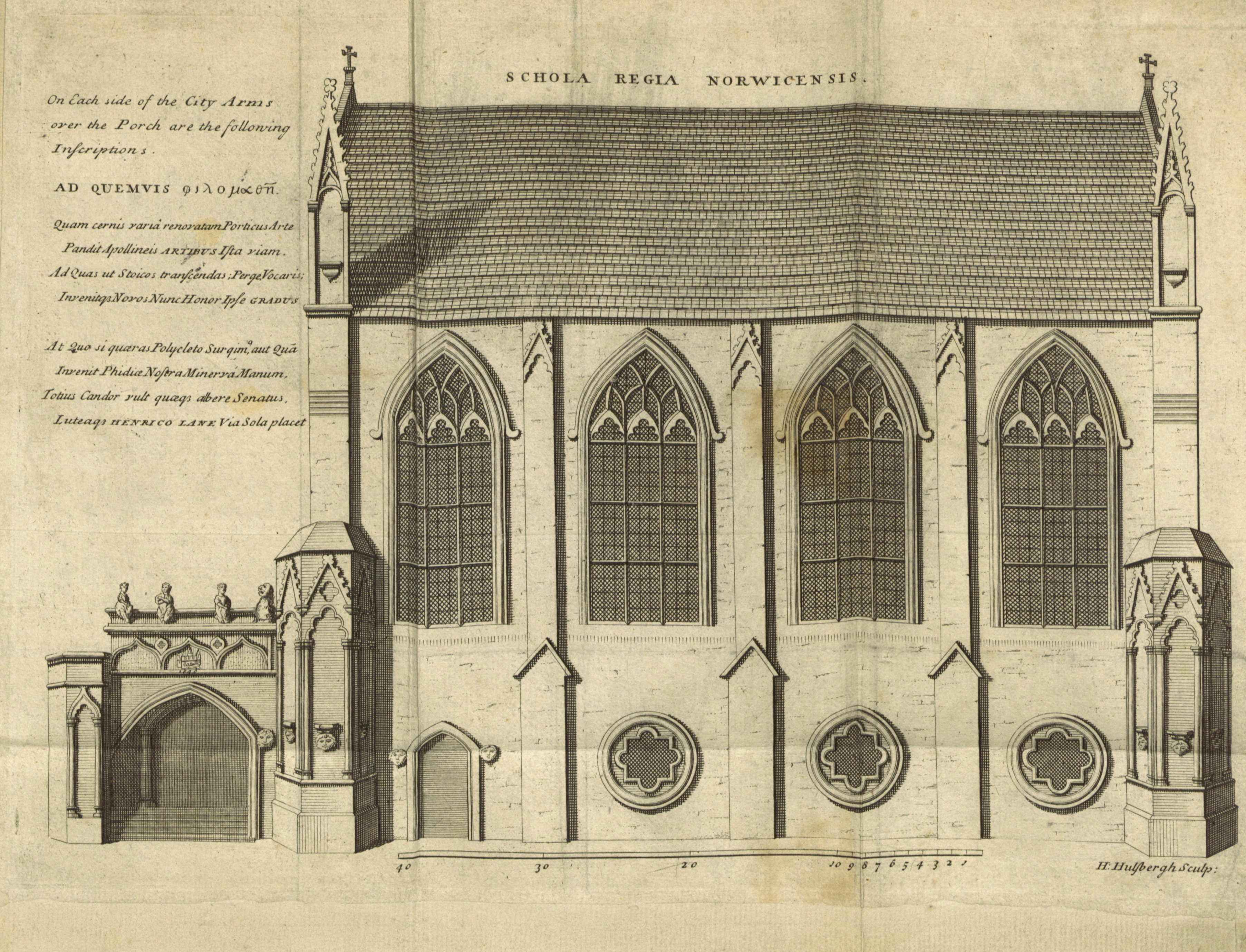 Early 18th-century illustration of the Schola Regia Norwicensis (Norwich School), featured in the 'Posthumous Works of the learned Sir Thomas Browne, Kt'.